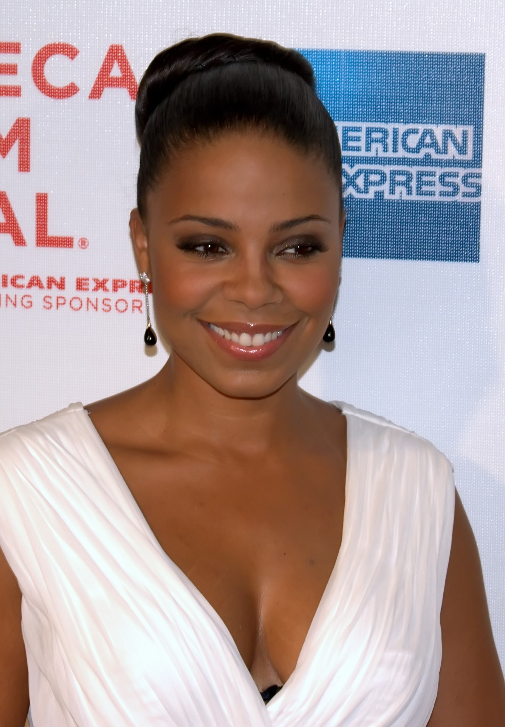 Sanaa Lathan at the 2009 Tribeca Film Festival premiere of Wonderful World. Photographers blog post about the event and this photo.